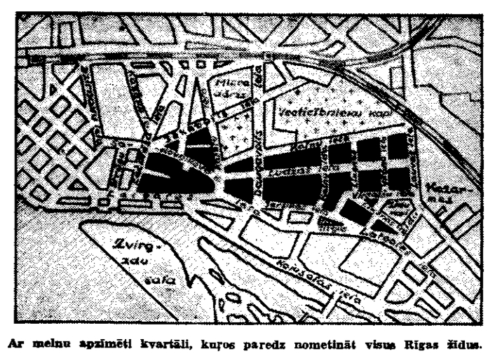 This map shows the boundaries of the Riga ghetto. It was published in Tēvjia, a Latvian newspaper under Nazi control.